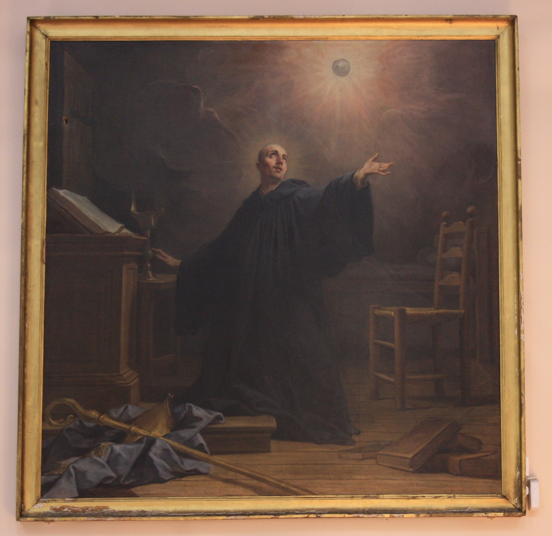 Painting inside of church Église Saint-Gilles in Bourg-la-Reine, France. Title: "Extase de Saint Benoît". Date: 1746. Author: Jean Restout (Rouen 1692 - Paris 1768).